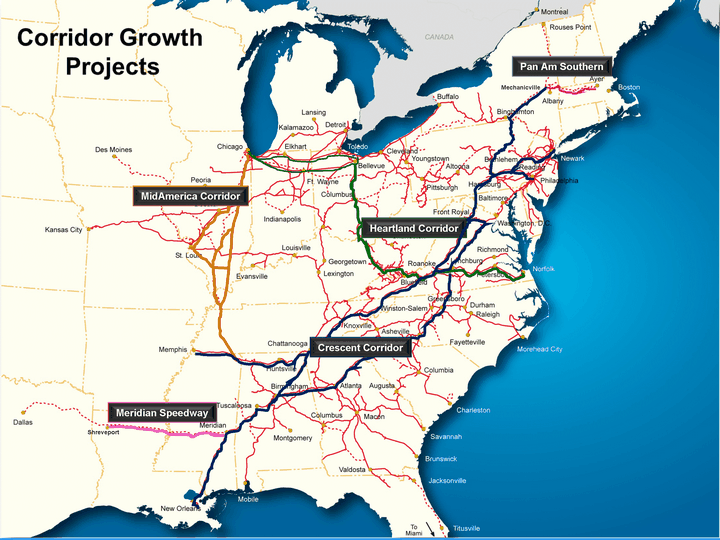 Norfolk Southern expansion corridors